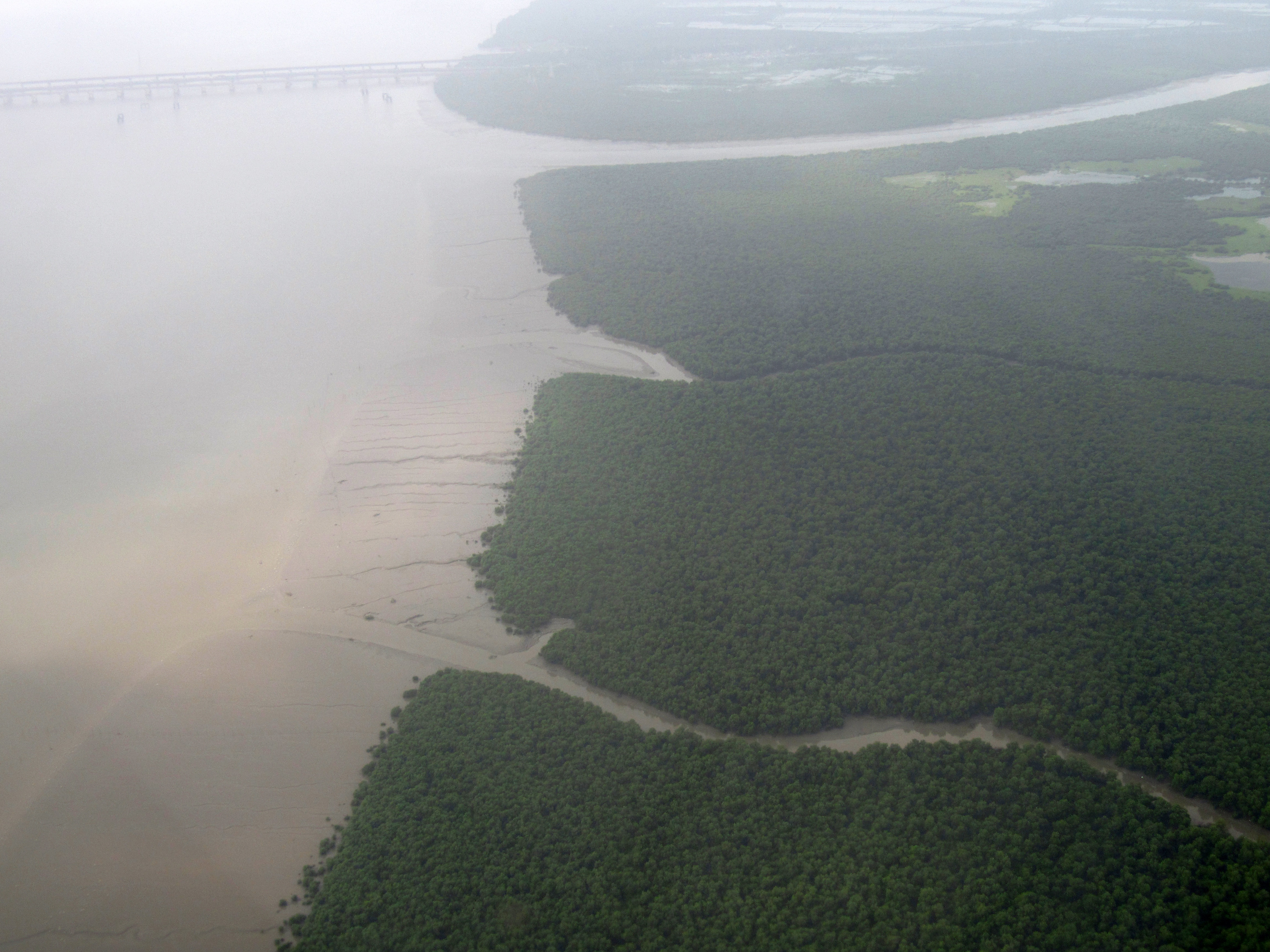 Eastern shore of the Thane Creek, India.